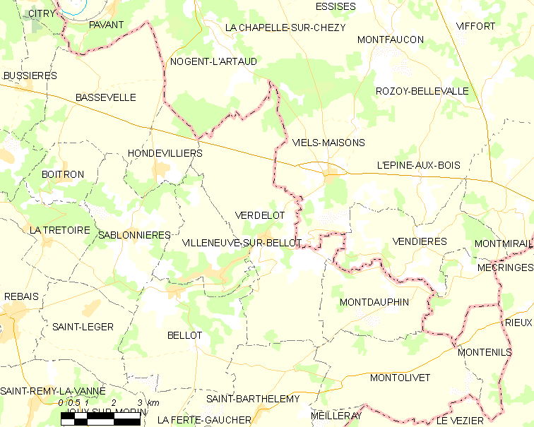 Map of French municipality Verdelot